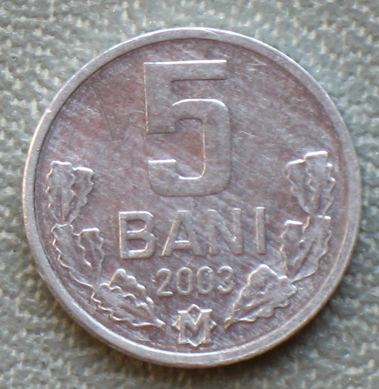 5 bani Moldova coin, averse.